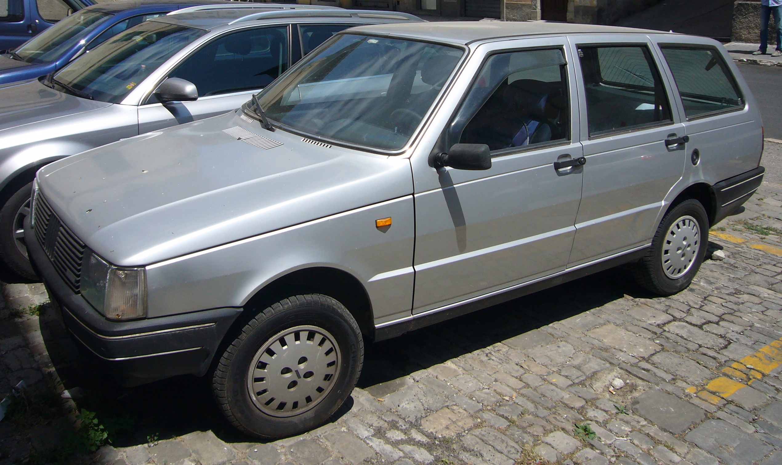 Fiat Duna Weekend 60 car in Umbria, Italy.